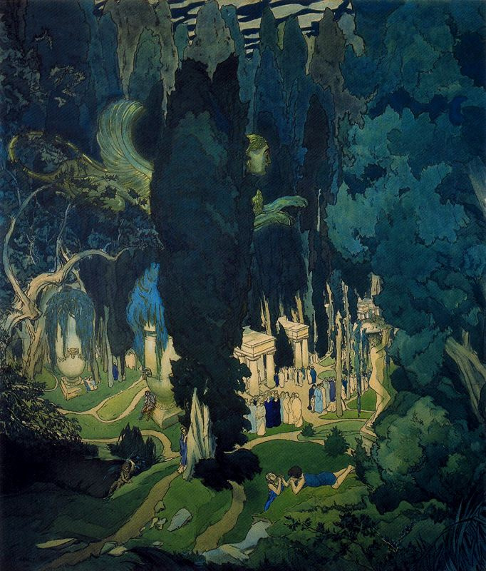 "Elisium" by Léon Bakst (1866-1924) from 1906.